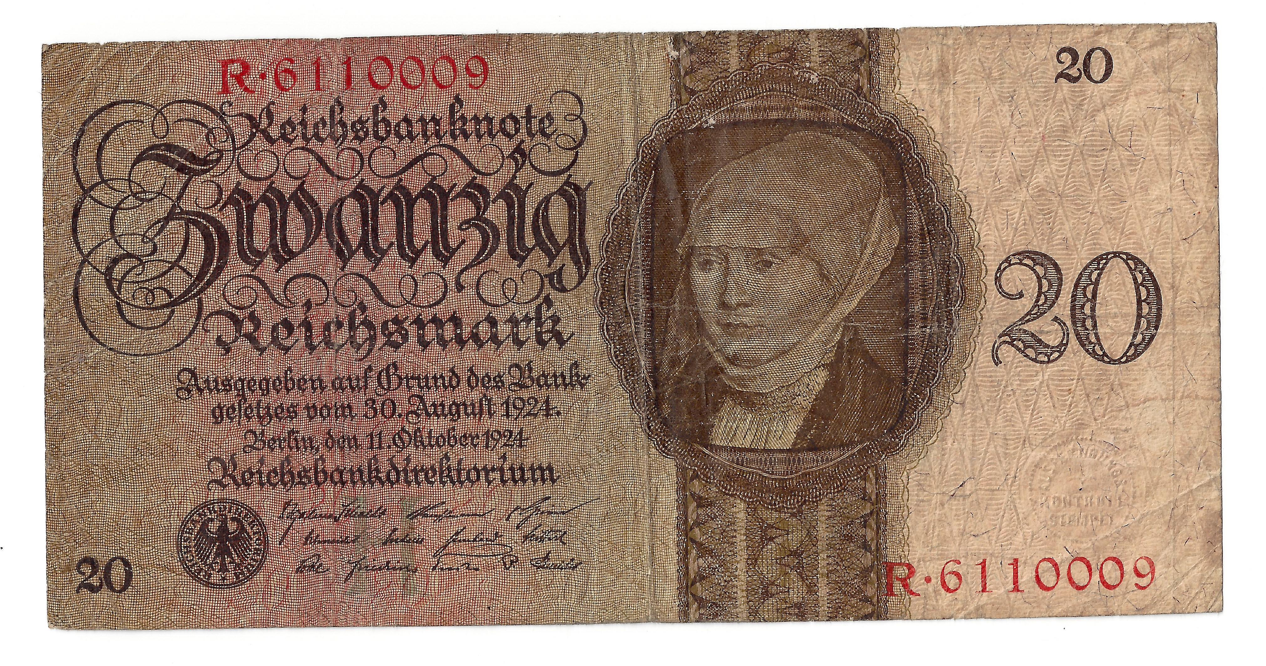 Germany 20 Reichsmark 11 October 1924 Reichsbanknote. FINE+. Elsbeth Binsenstock, Hans Holbein's wife, Basel 1519, 1495 - 1549 Weimar Republic, 20 Mark 1924 bank note. Renaissance portrait of Hans Holbein the Younger's wife. Pick 176. Condition: Nice FINE, no tears, no pinholes.